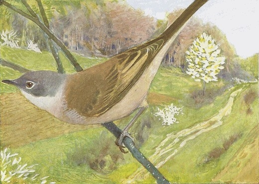 Sylvia communis